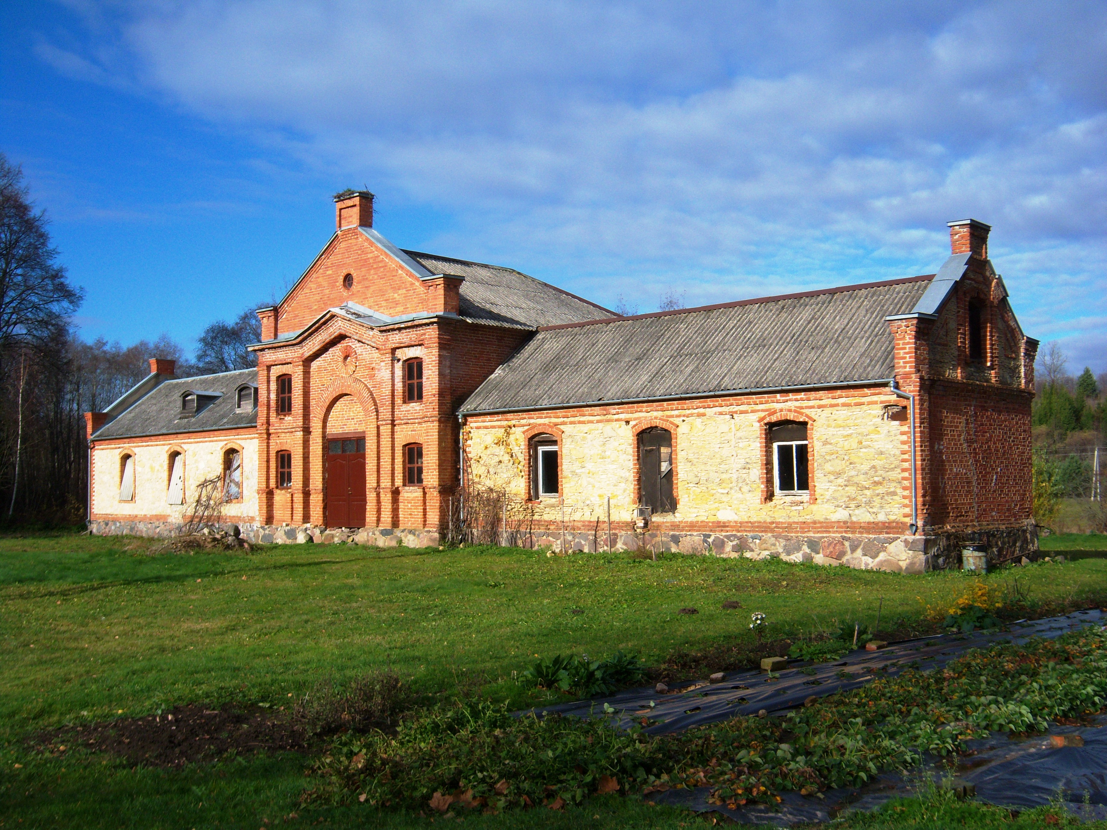 Palėvenė manor in Stirniškiai, Kupiškis District, Lithuania